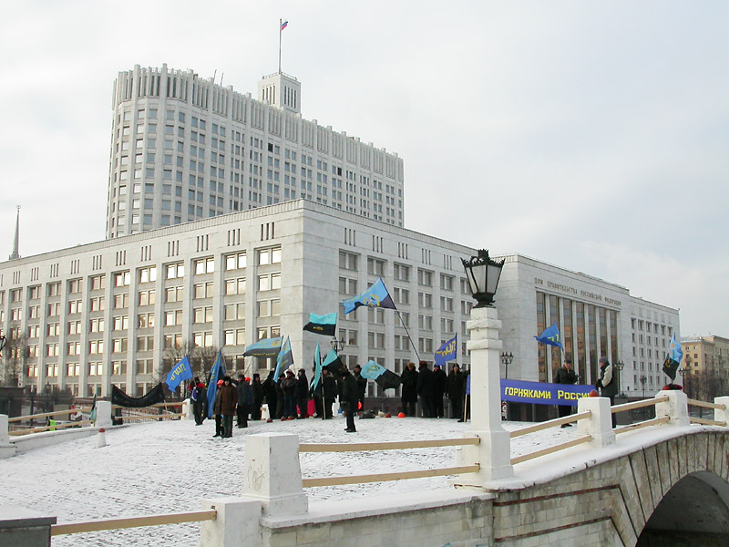 White house in Moscow